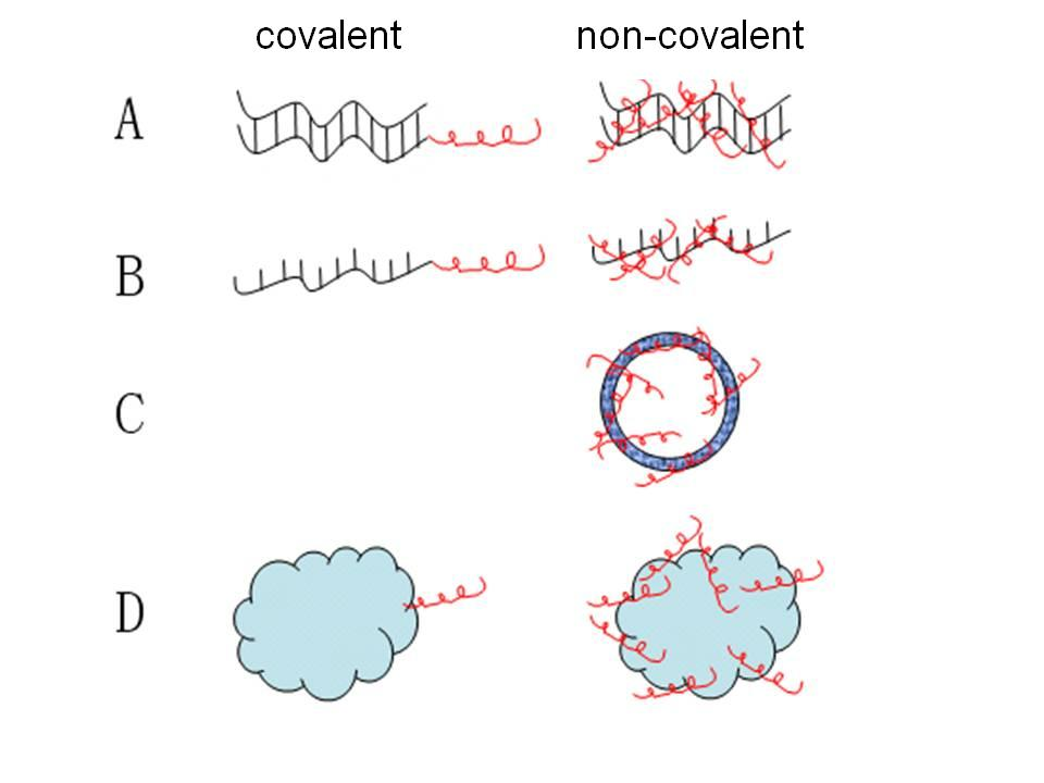 A.CPP and siRNA B.CPP and asON C.CPP and plasmid D.CPP and protein